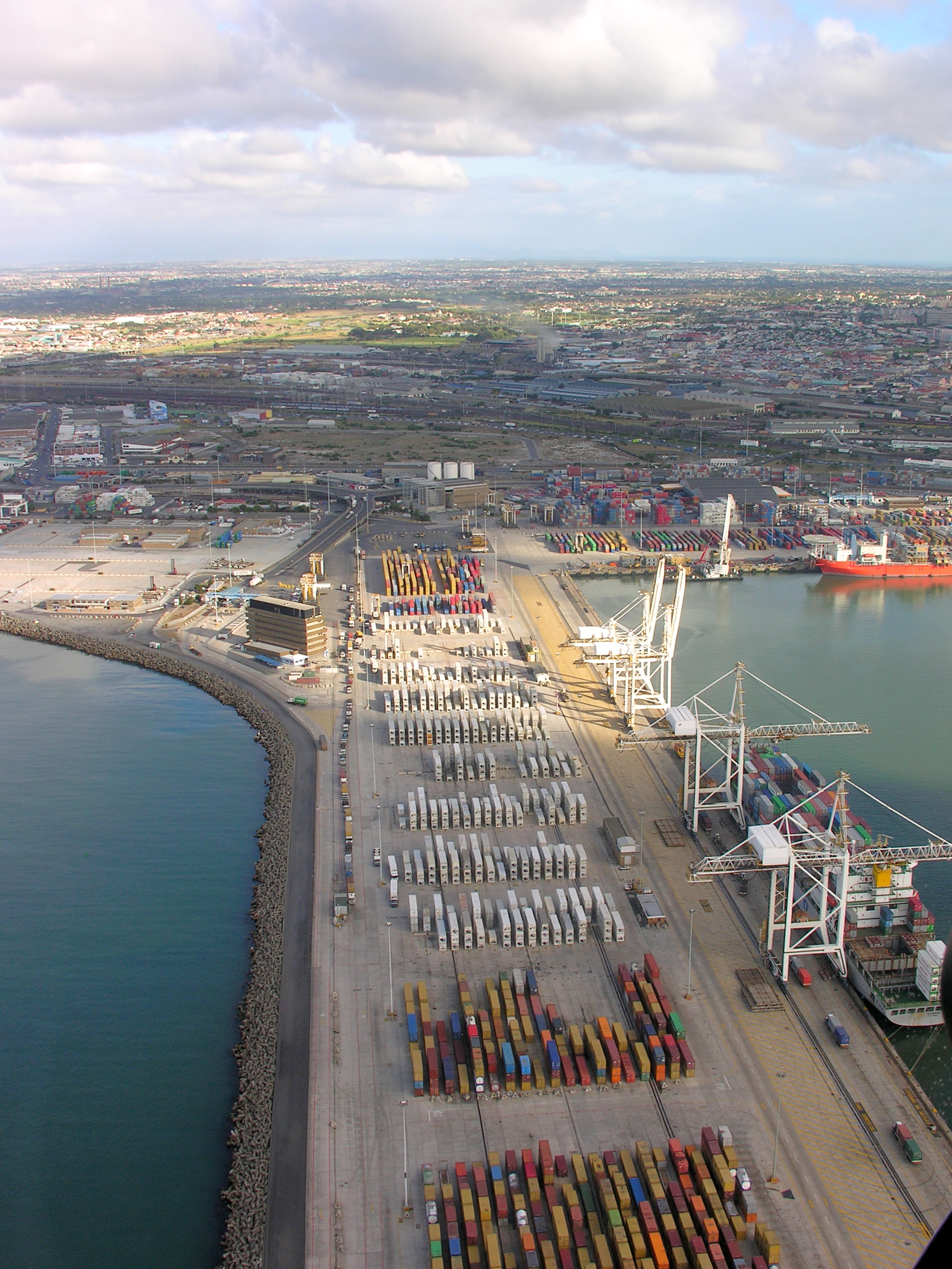 South Africa, Aerial views around Cape Town. For exact location see geocode.